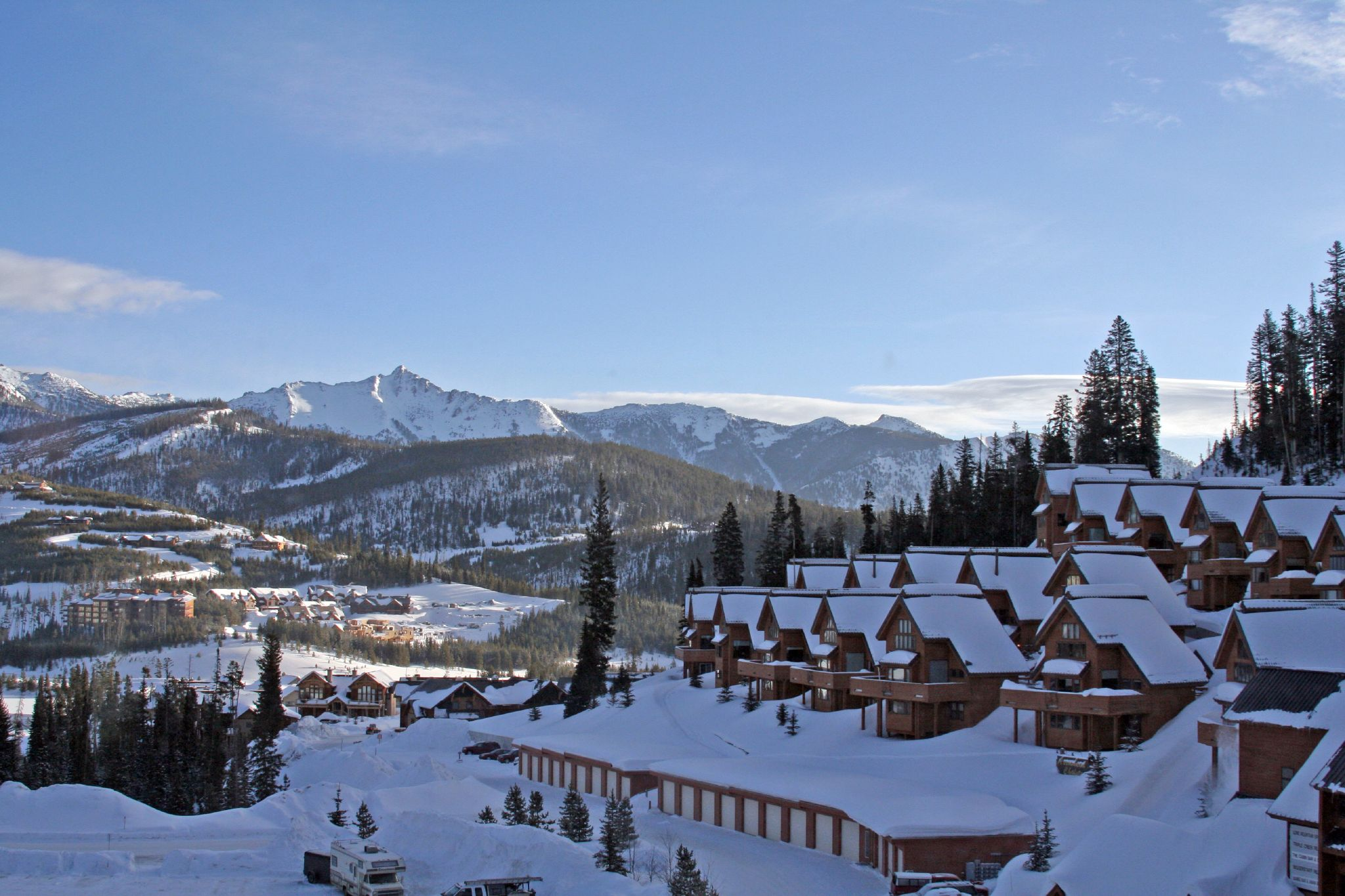 Photo of a resort at Big Sky, Montana.